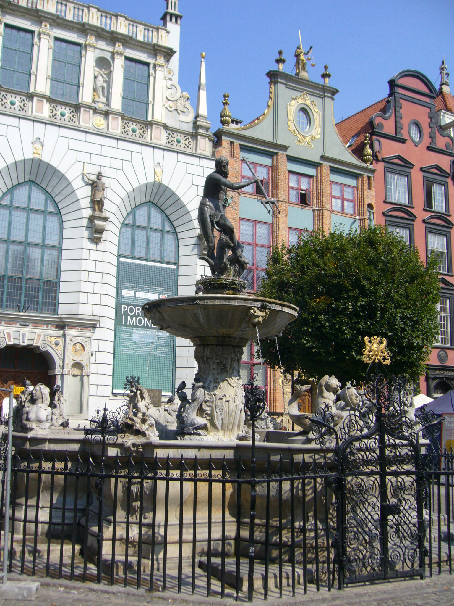 Neptune's Fountain at Gdańsk, Poland